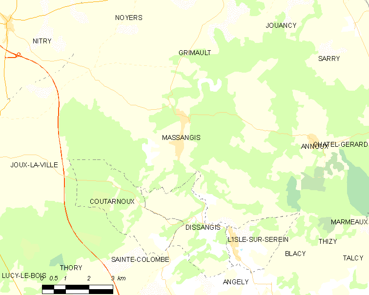 Map of French municipality Massangis